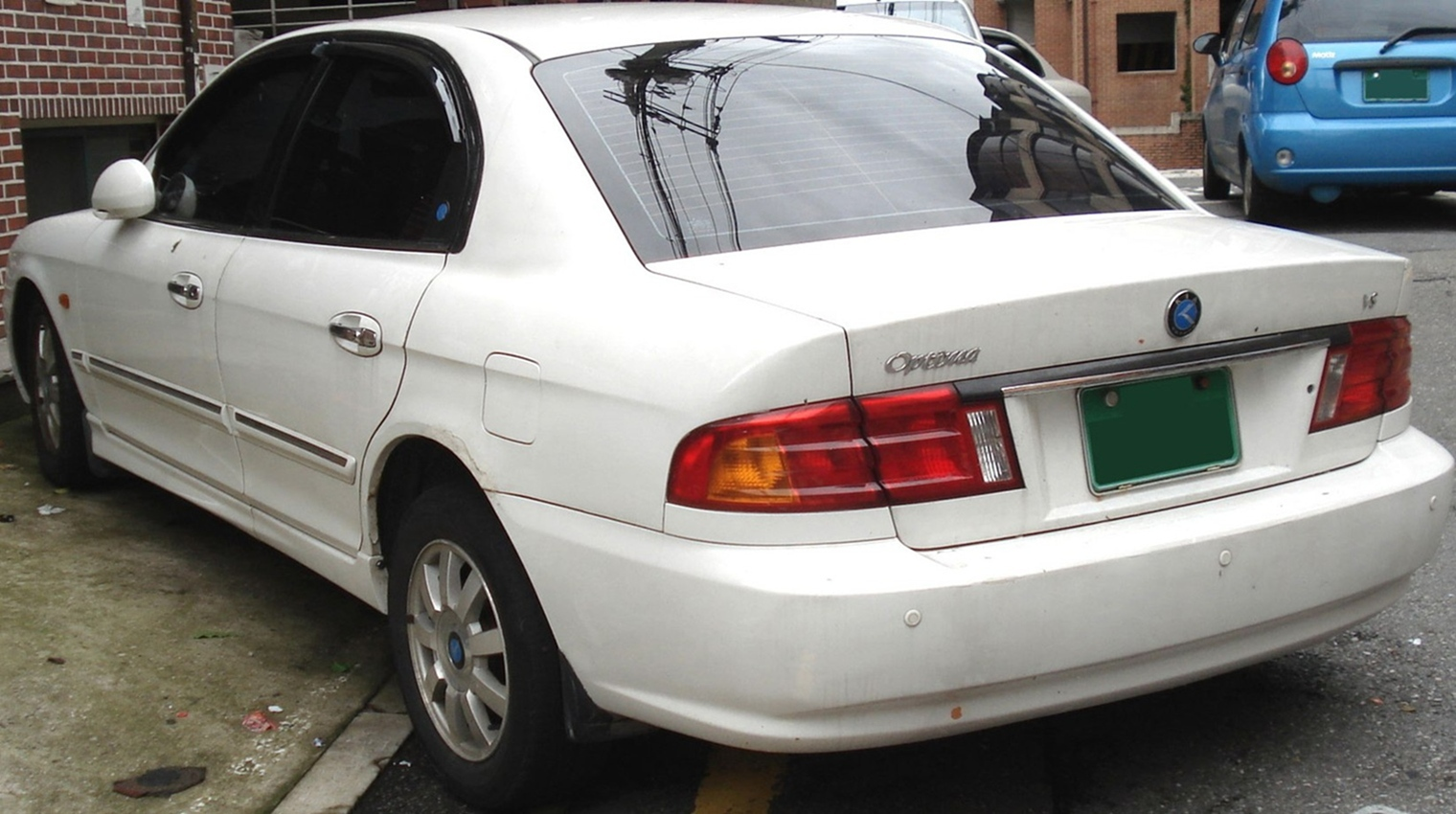 Kia Optima